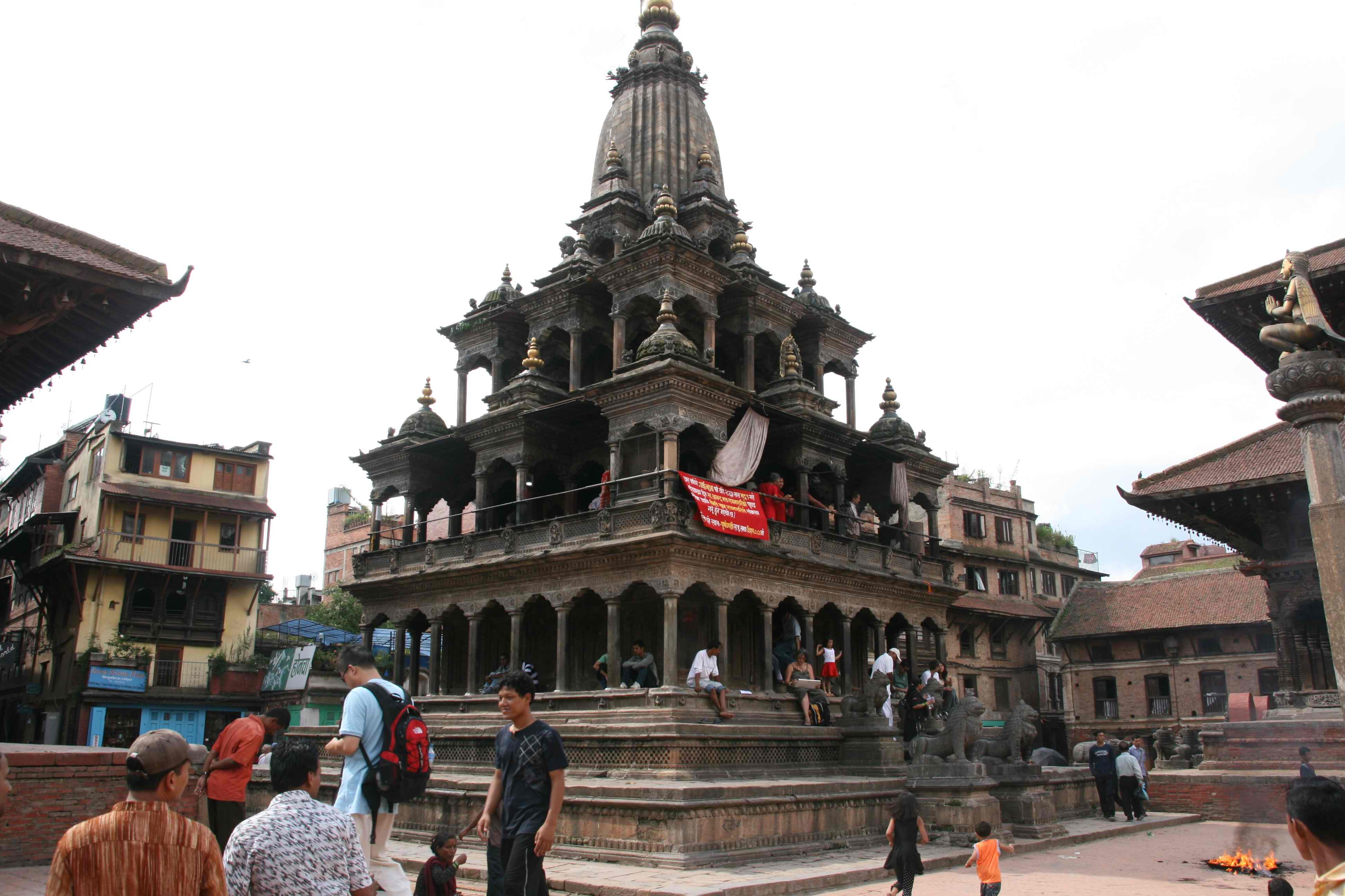 A view of the Patan Durbar square.